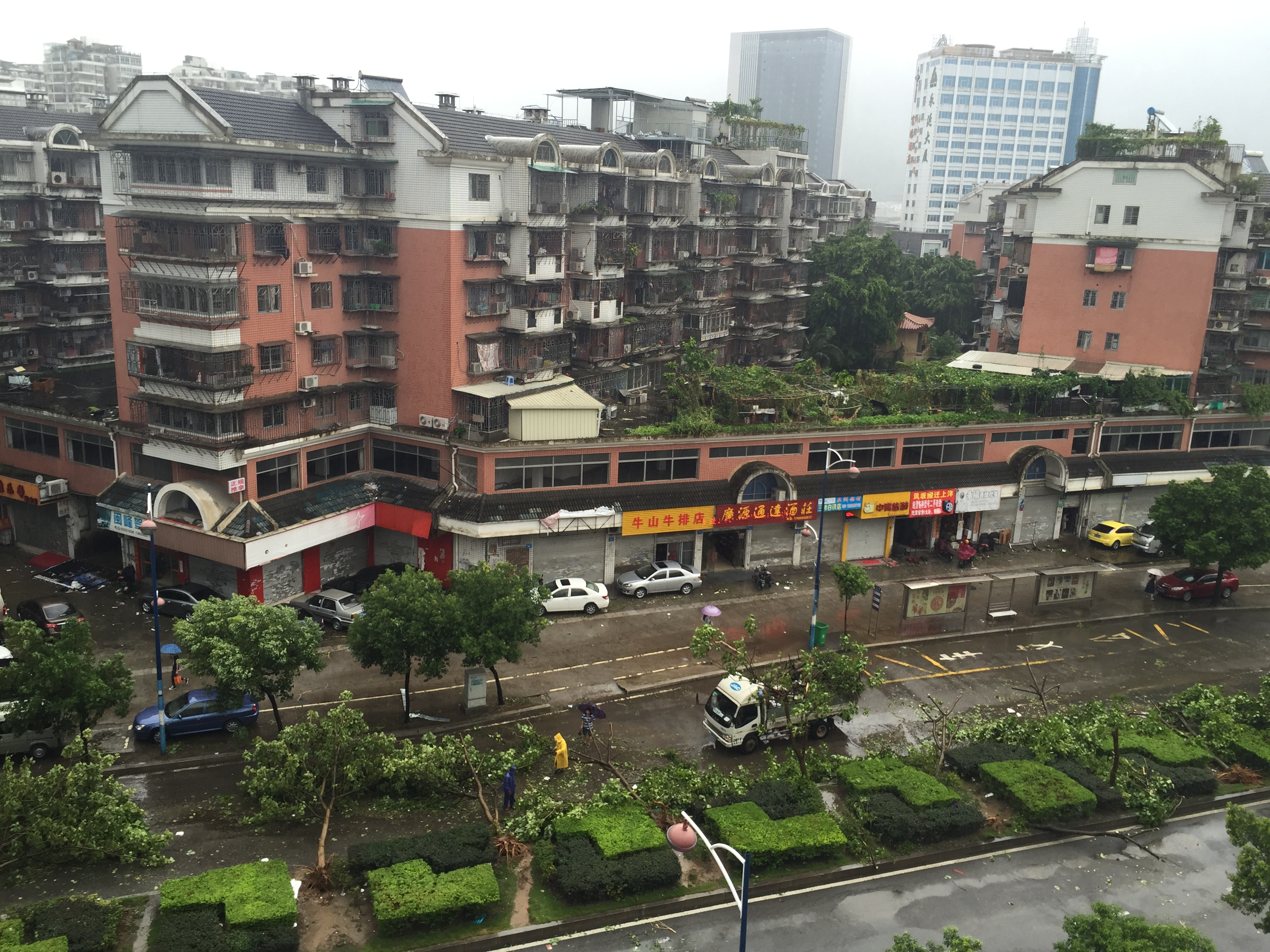 A truck is used to tow the collapsed trees after typhoon.